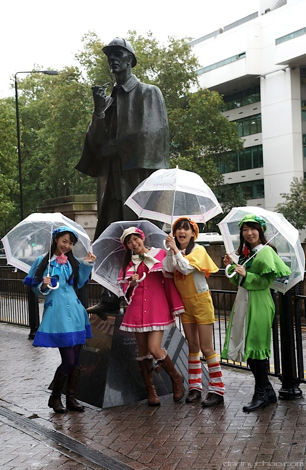 View more at